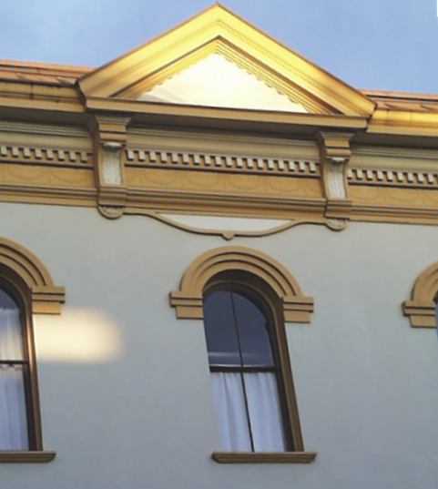 Detail of the facade of Smeede Hotel on Willamette Street in Eugene, Oregon, United States. Listed on the National Register of Historic Places.